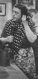 Baby Correa- actriz